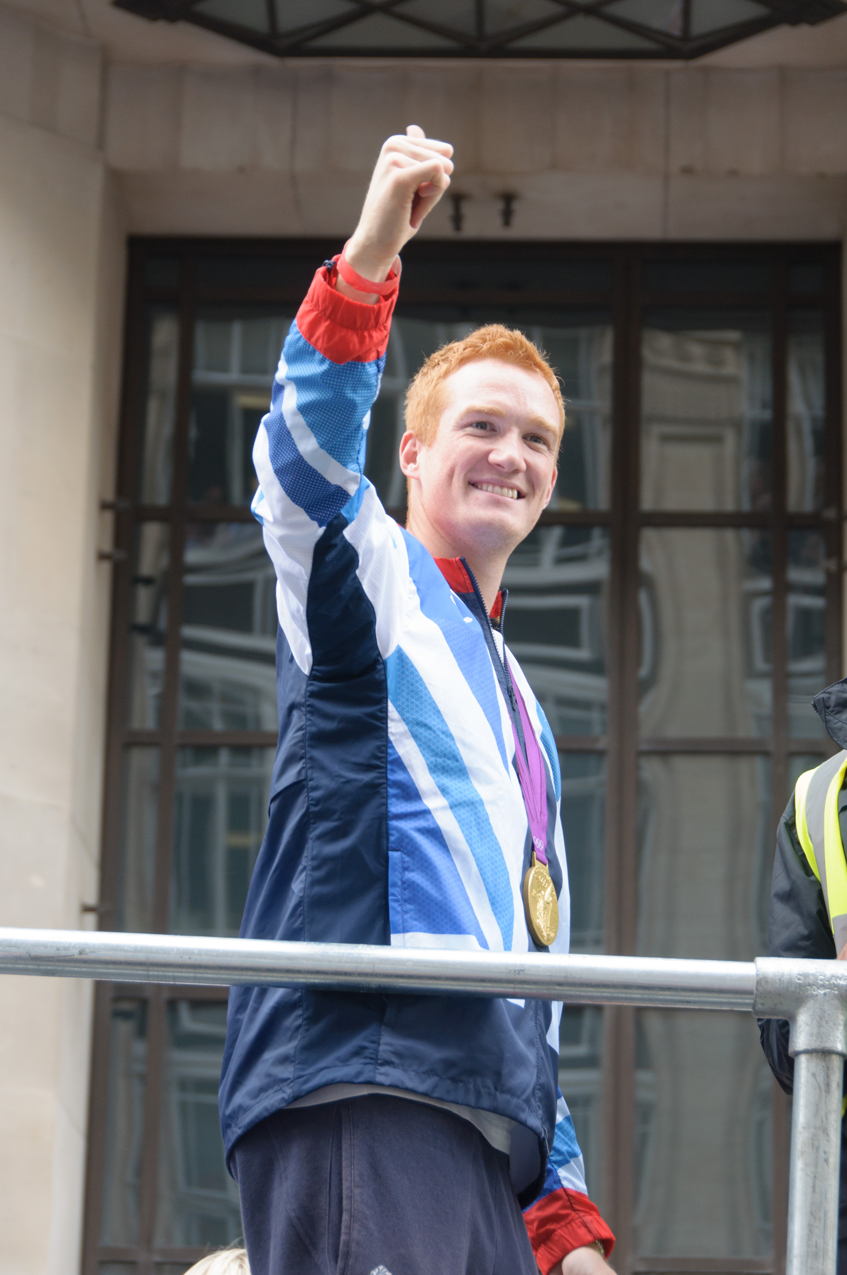 Greg Rutherford